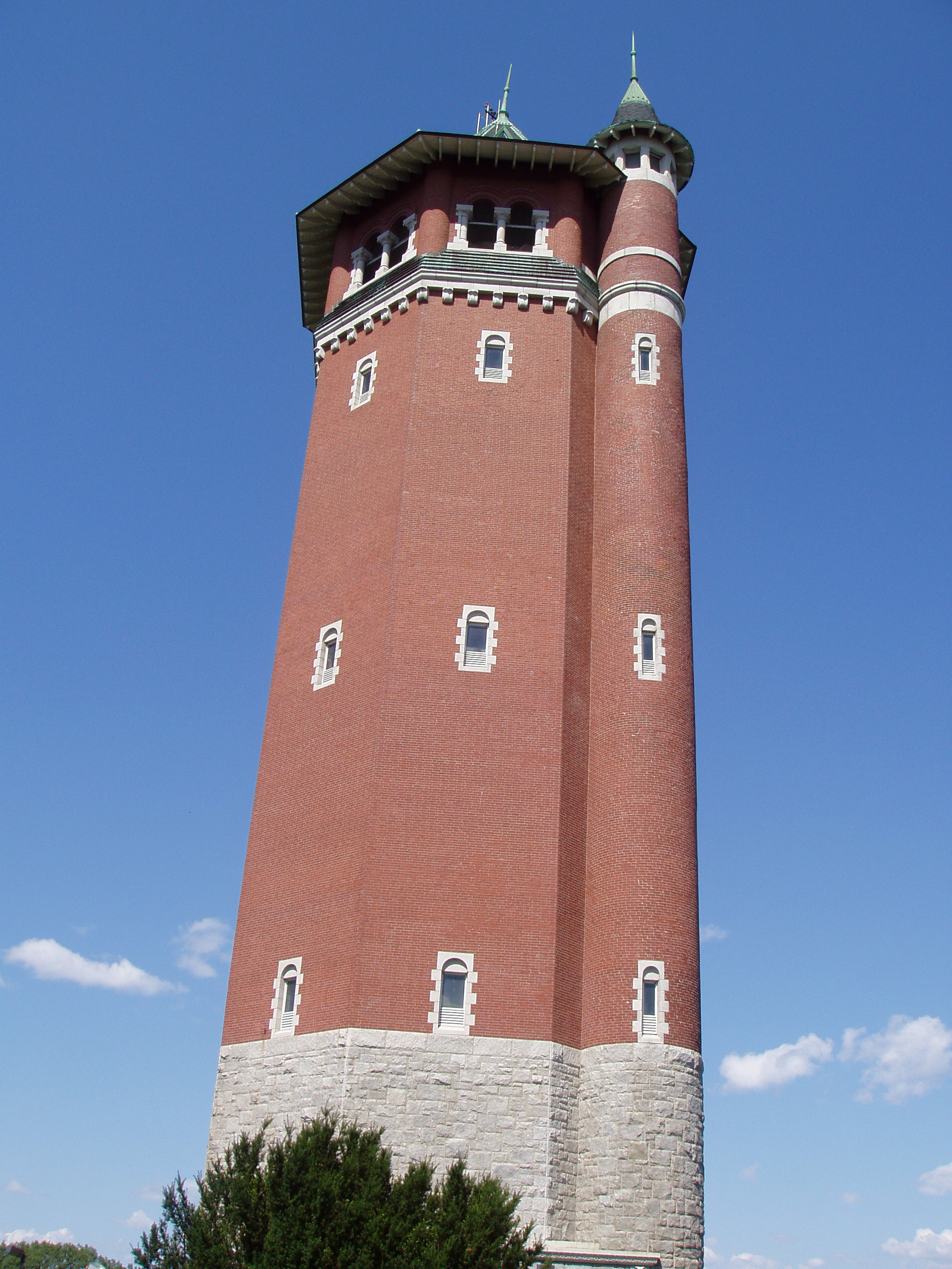 High Service Water Tower (1895), also called Tower Hill Water Tower, Lawrence, Massachusetts. It was named a Water Landmark in 1979 by the American Water Works Association. Photograph taken by me, July 2005. I have added the GFDL tag as of Feb 2, 2006; when I uploaded the image, I forgot to put it in the description.